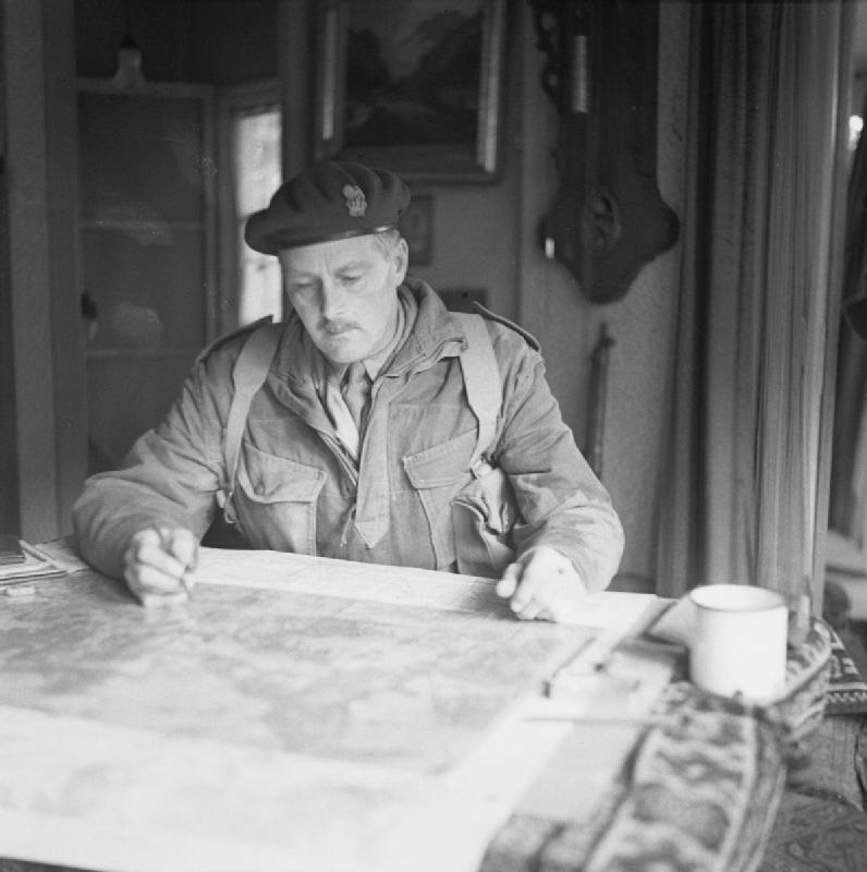 Brigadier P. H. W. Hicks DSO MC, studying a map at Divisional Headquarters during the advance to Arnhem. Hicks, who had also led British Airborne troops in the invasions of Sicily and Holland, was one of only three senior officers to return from Arnhem.